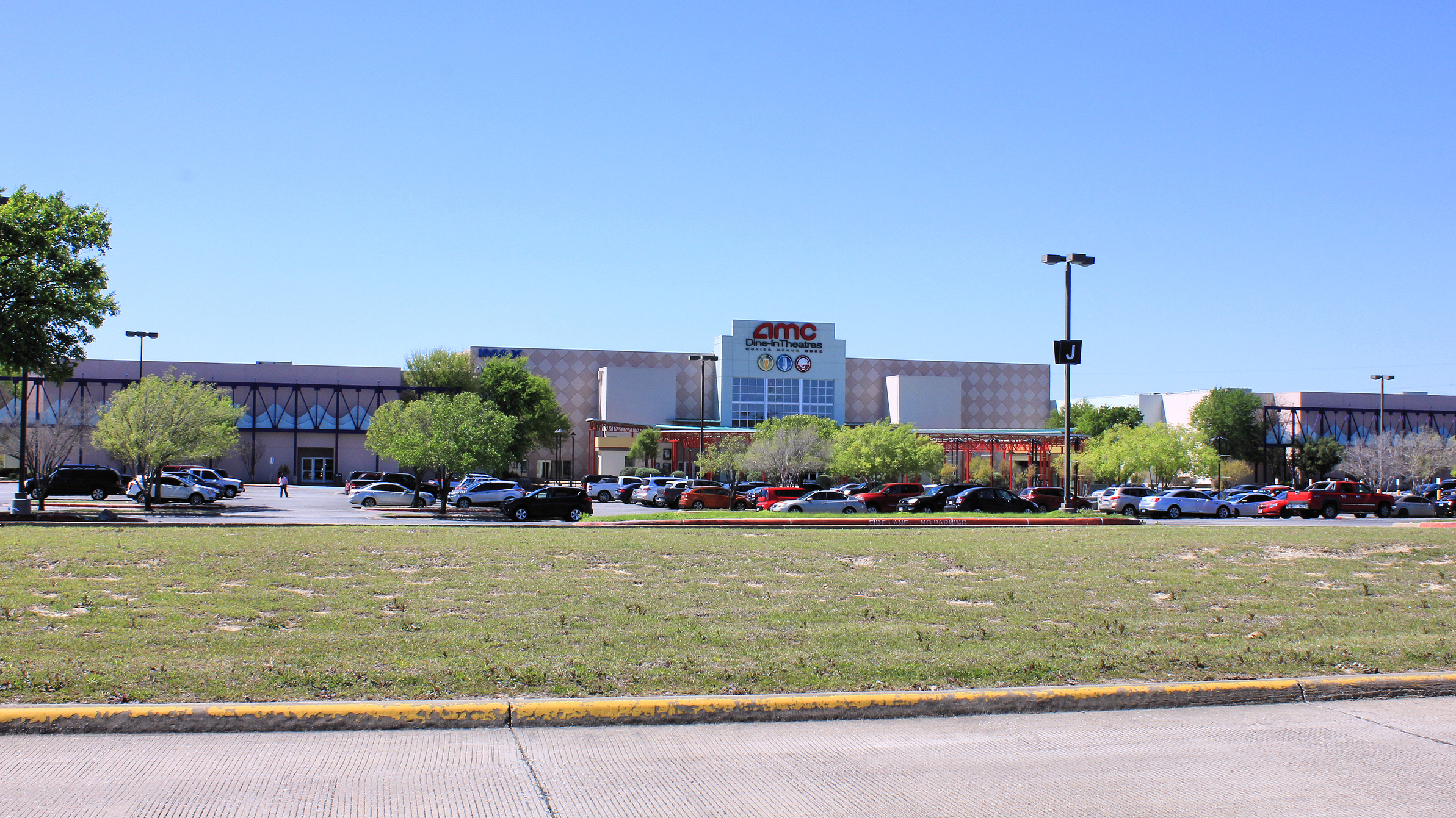 The AMC 30 theatres in Mesquite, Texas, United States is one of the largest movie theaters in the world.